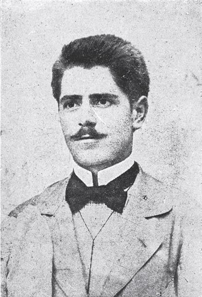 Portrait of IMARO voevoda Dimitar Gushtanov